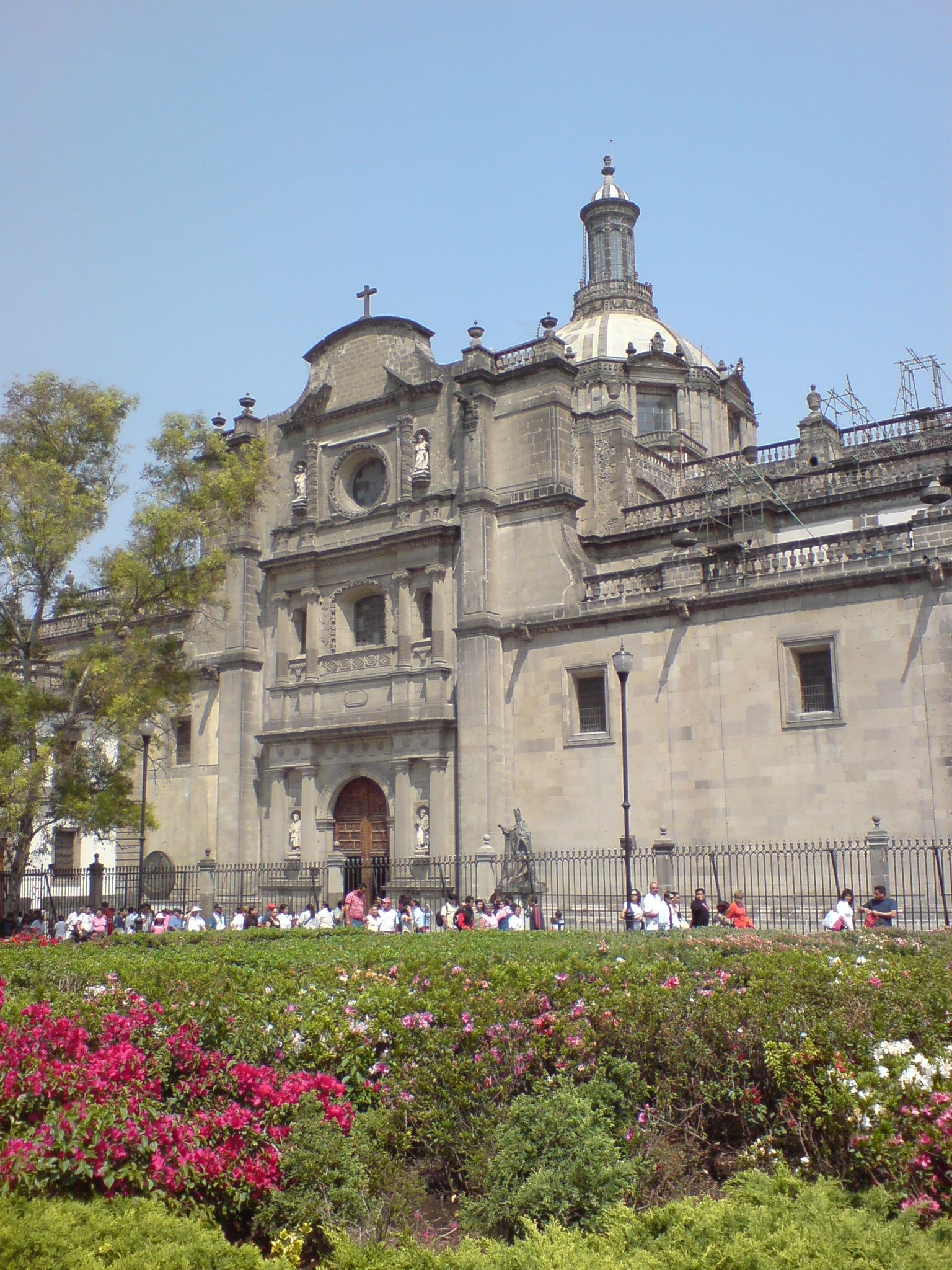 Mexico City